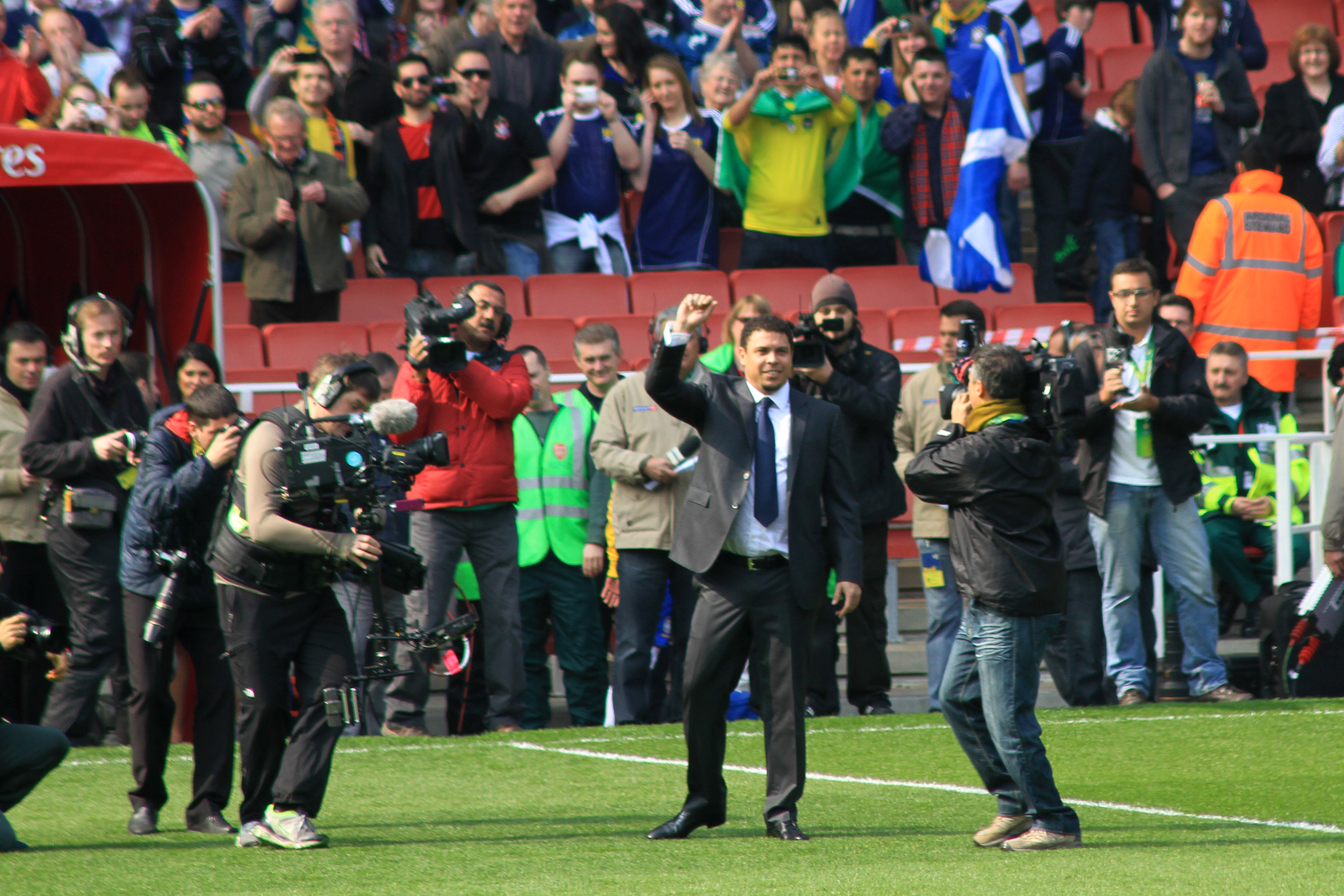 Ronaldo says Goodbye to Europe!